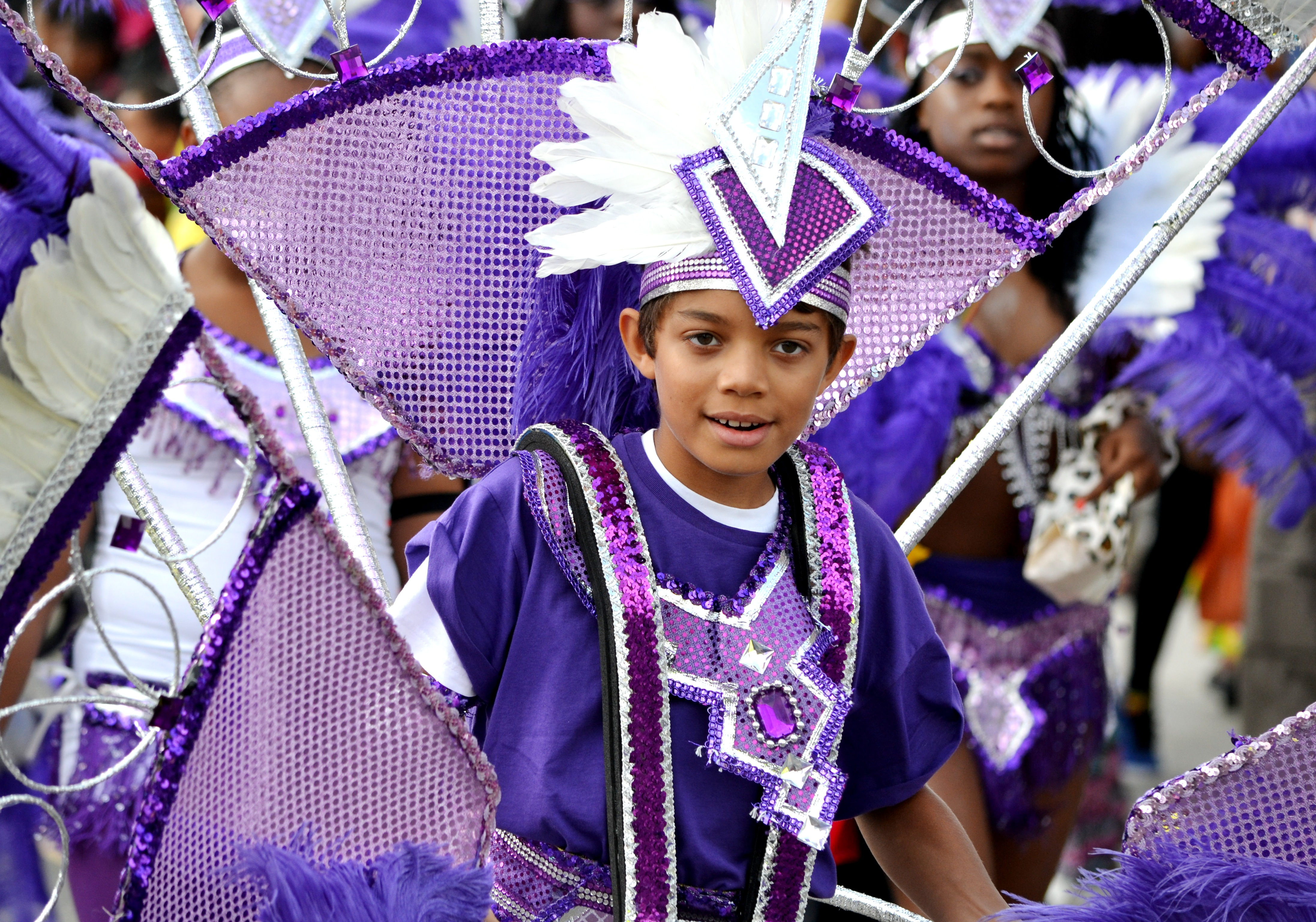 Notting Hill Carnival 2013, London, U.K.